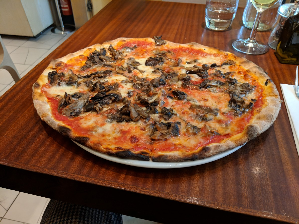 Pizza with mushrooms